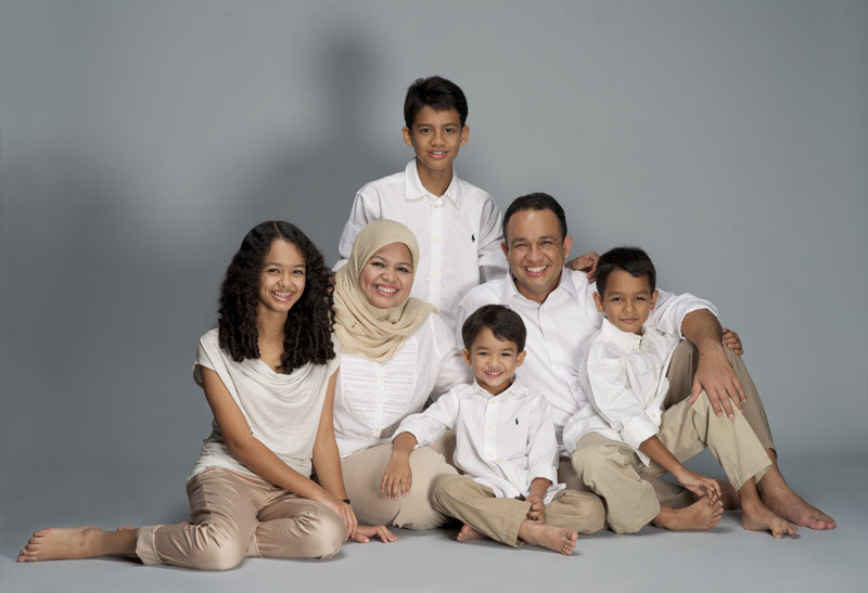 Family of Anies Baswedan